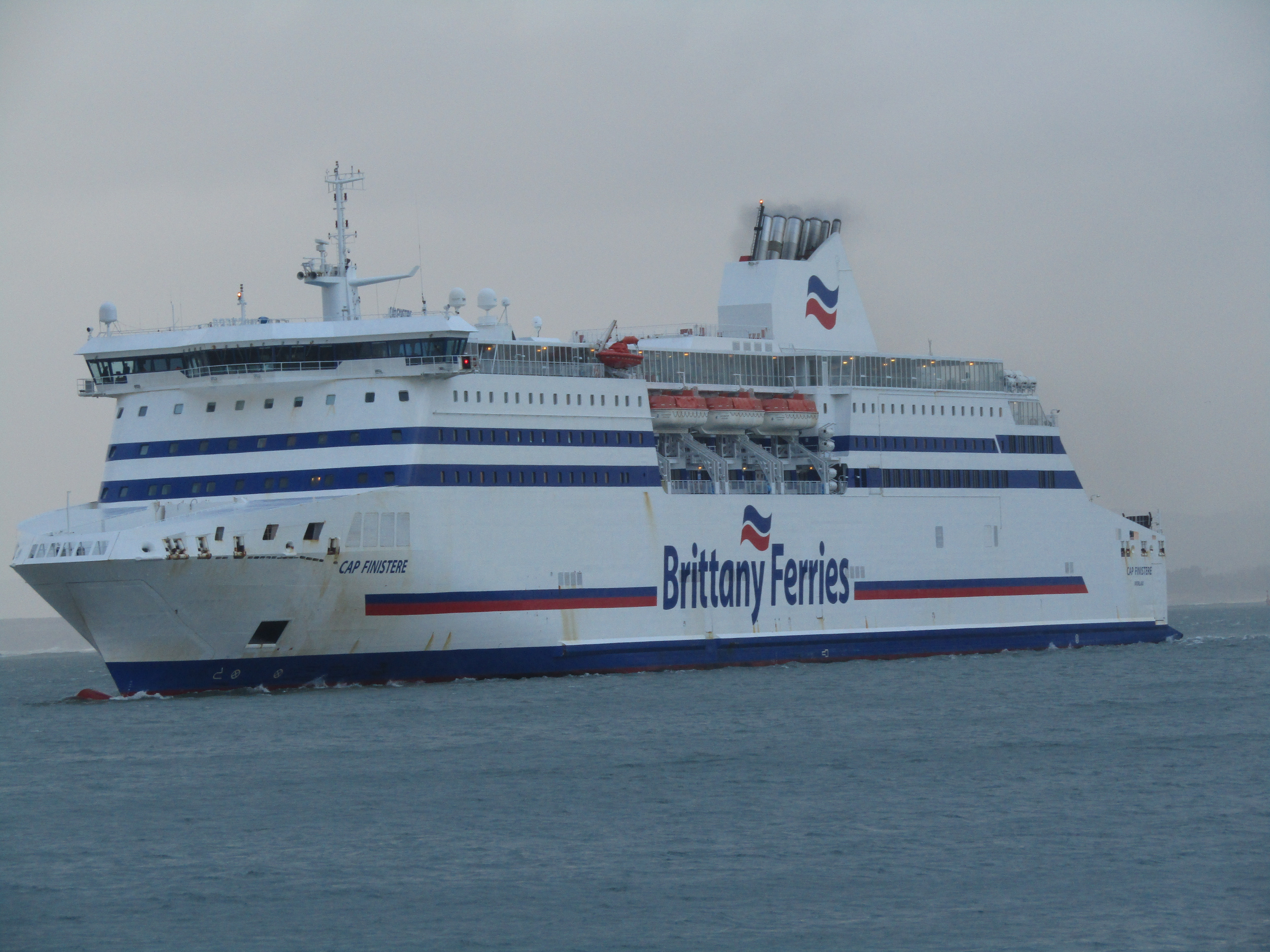 Brittany Ferries 32,728 GRT Ro-Ro ferry MV Cap Finistère outward bound from Portsmouth to Santander, Cantabria, Spain.